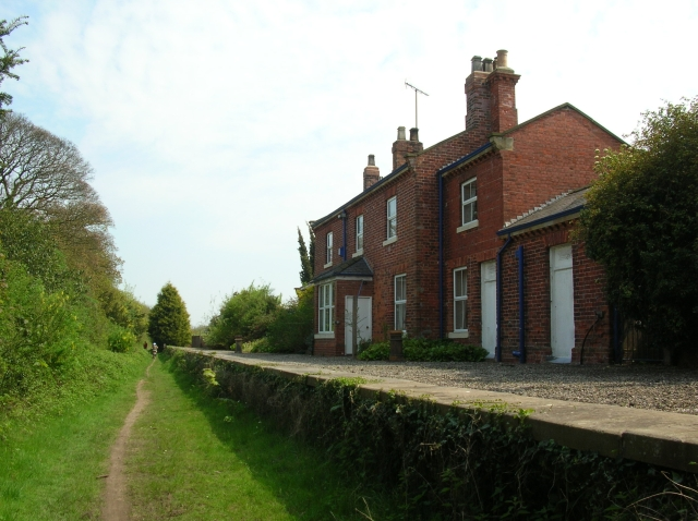 Former Railway Station, Cherry Burton, East Riding of Yorkshire, England Cherry Burton railway station on the former York to Beverley railway, now Sustrans cycle route 66.